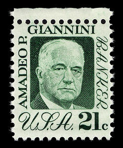 US stamp honoring Amadeo Giannini